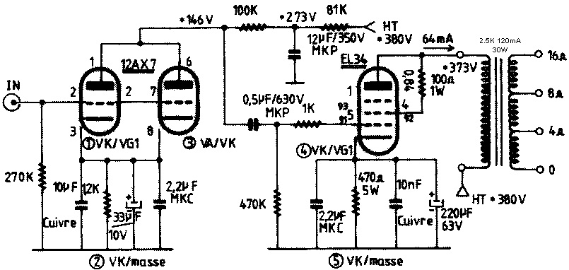 el